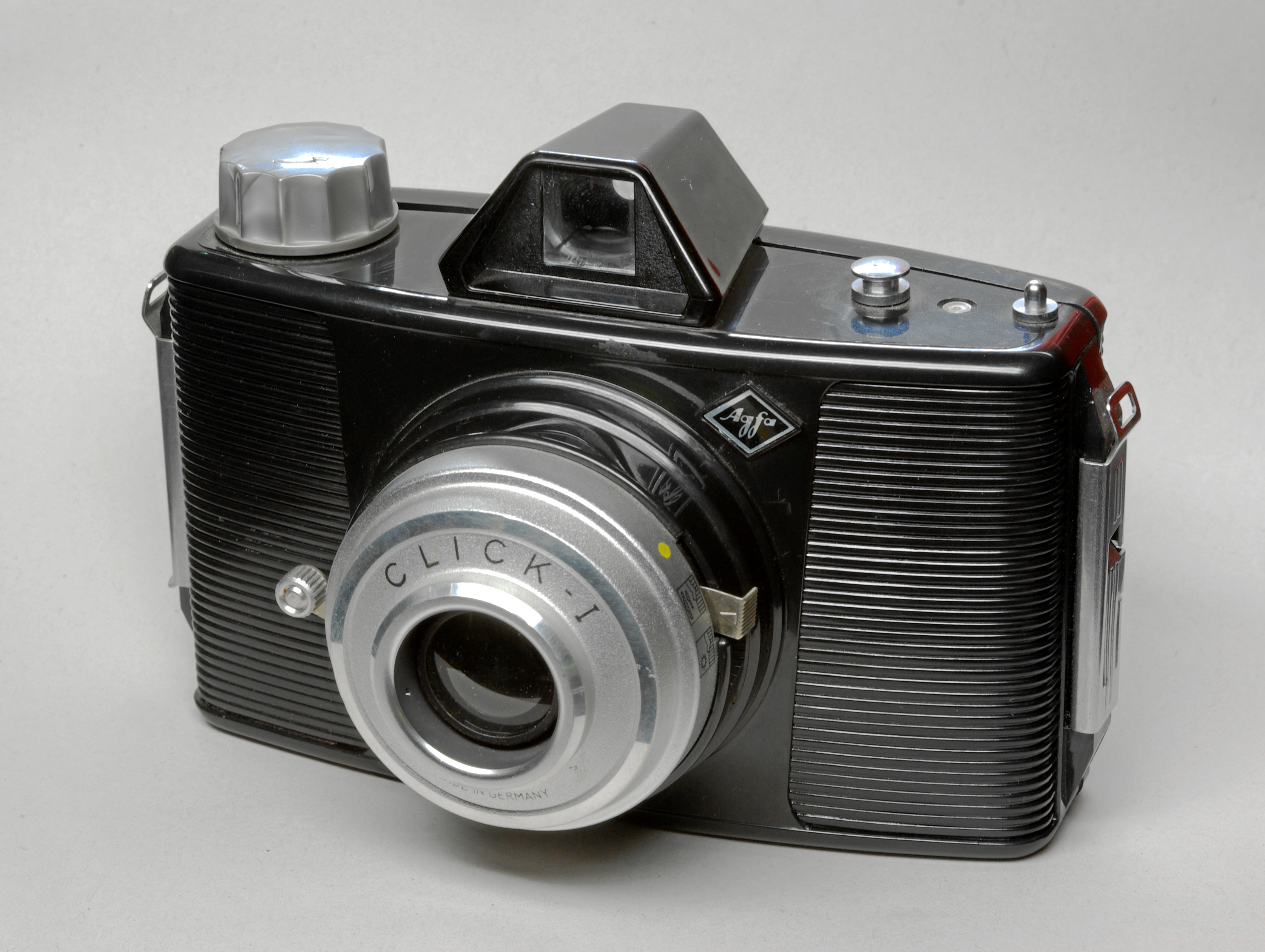 Agfa Click